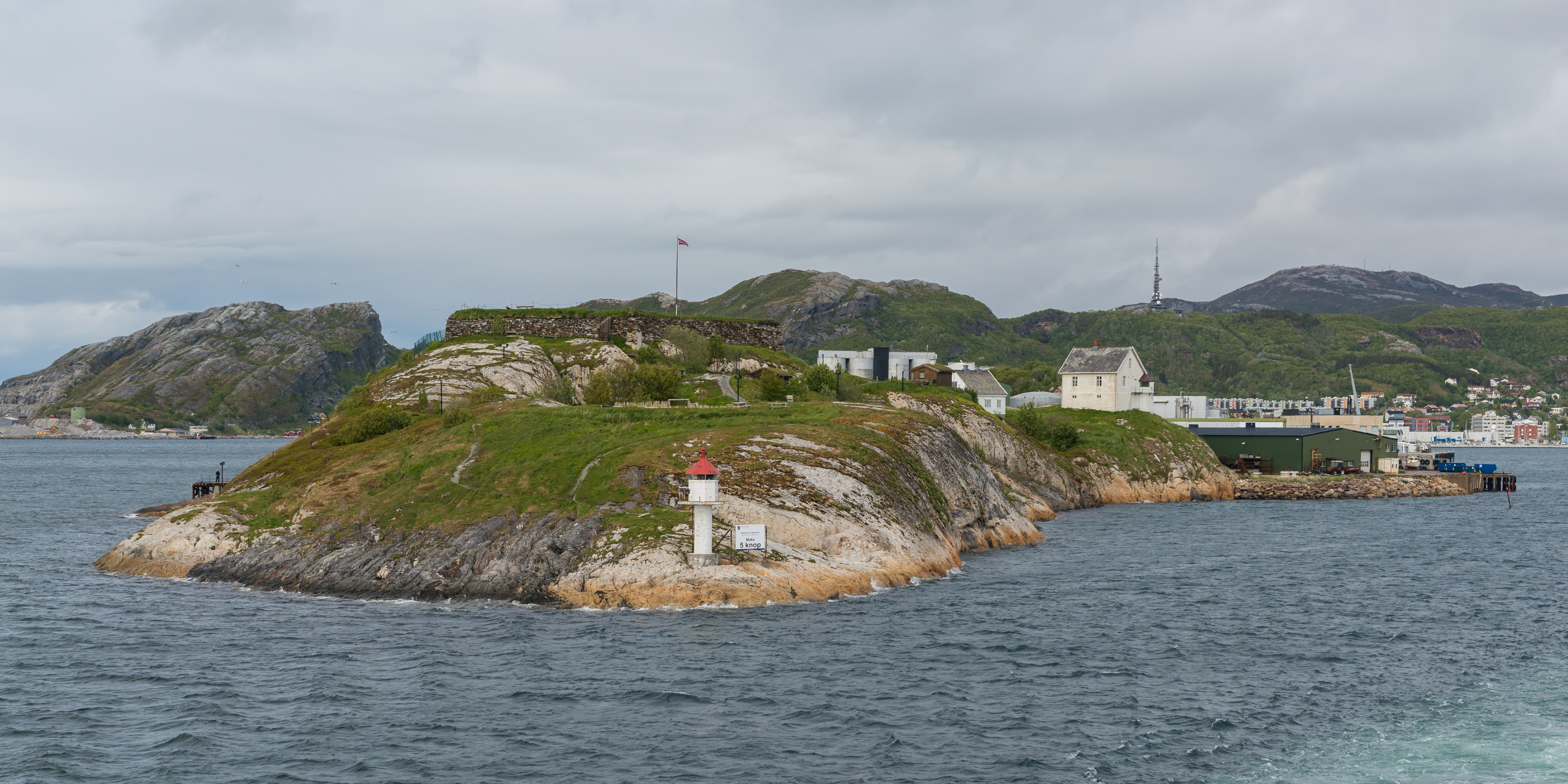 A southwest view of Nyholmen. Both the lighthouse and the sconce can be seen.